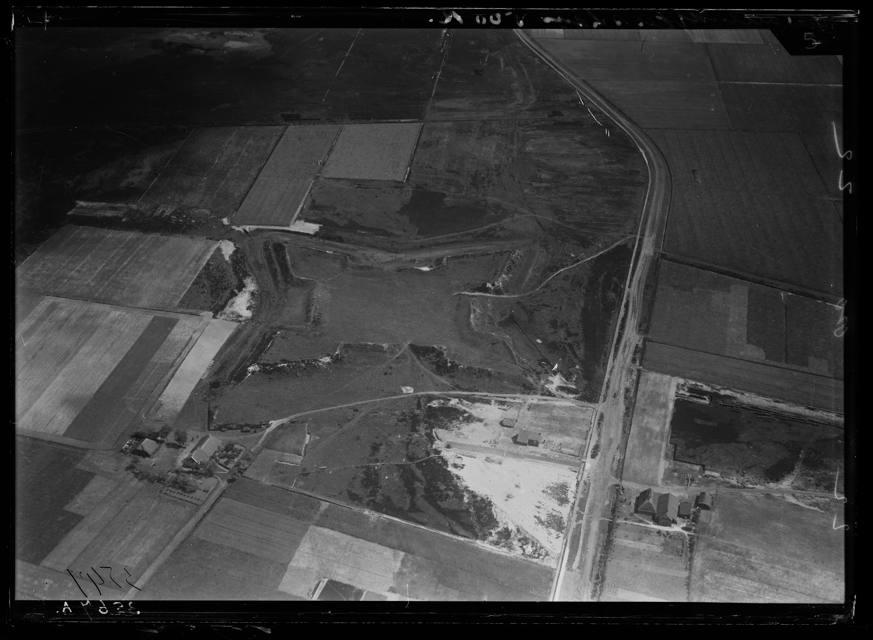 Aerial photograph of the fortification Zwartendijksterschans, Een, Noordenveld, Drenthe, The Netherlands